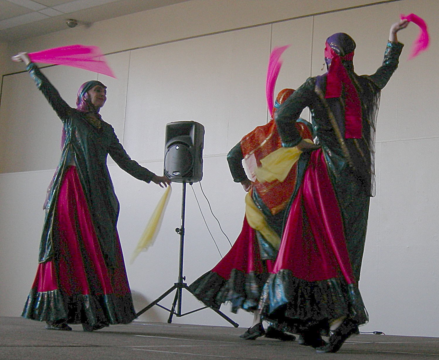 Karavan Dance Group, Iranian Festival, Seattle Center Pavilion, Seattle, Washington